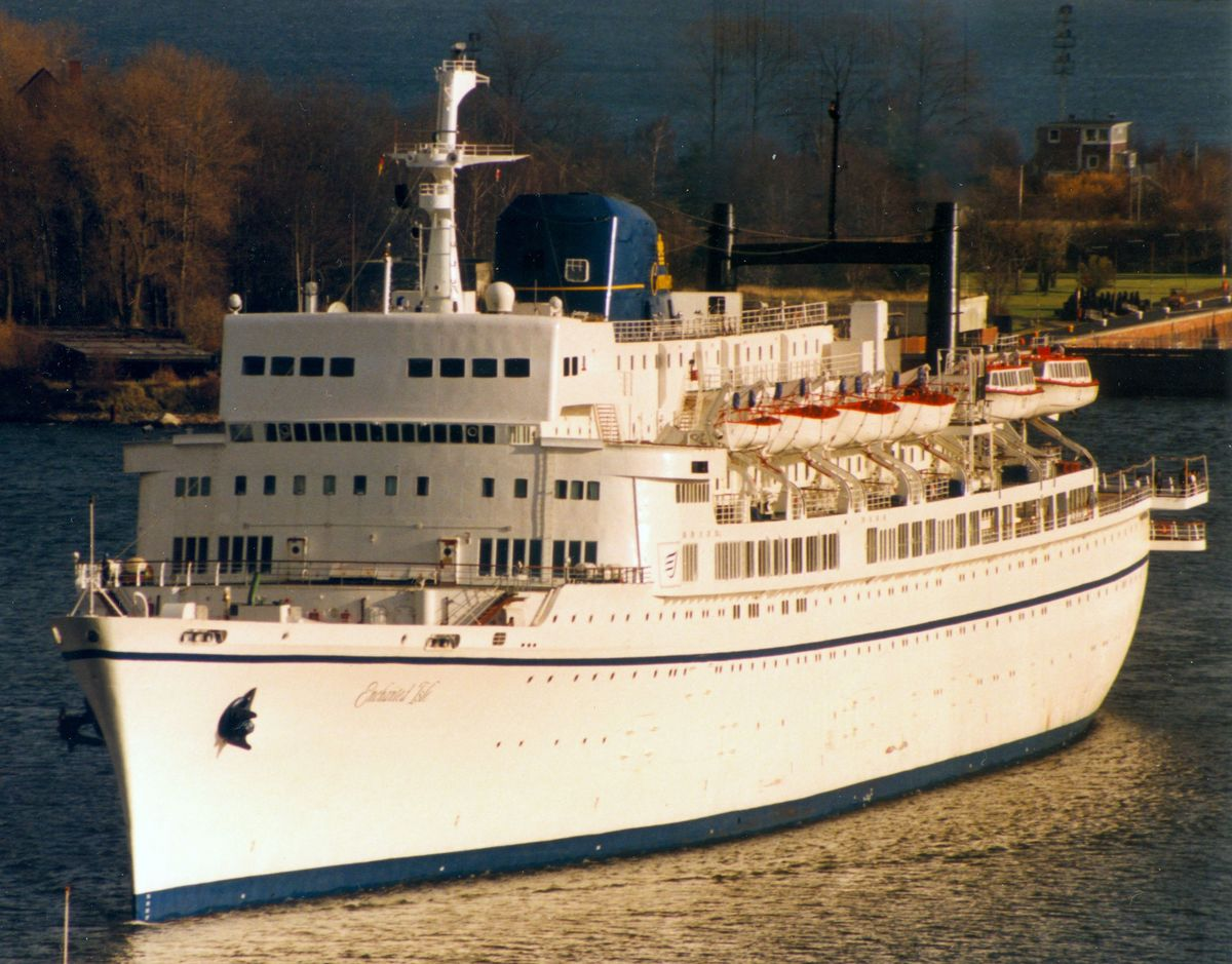 The cruise ship Enchanted Isle at Kiel on November 16, 1994.